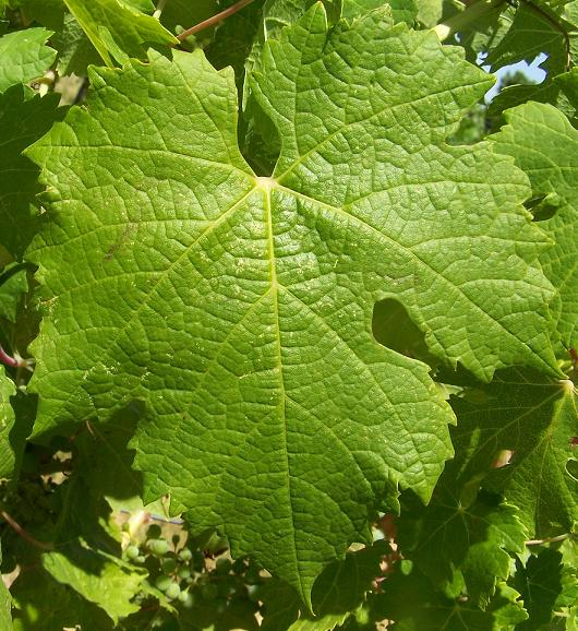 Image of Carmenere leaves taken from an unknown Walla, Walla WA vineyard on July 24th, 2007 with a Kodak z650.